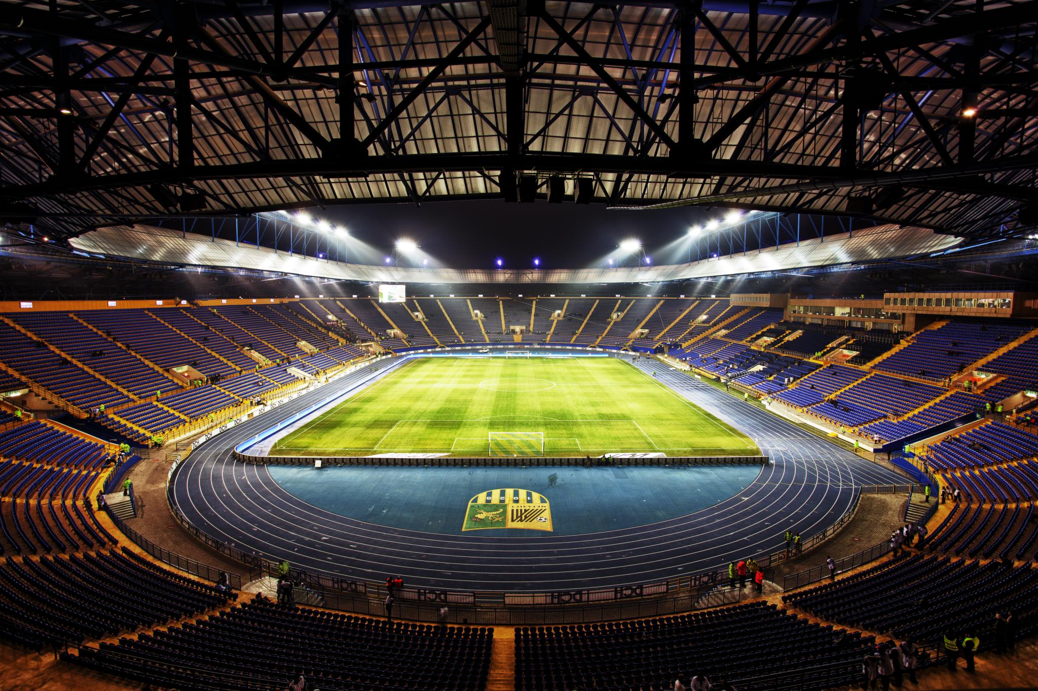 Oblast Sports Complex "Metalist" (Ukrainian: Обласний спортивний комплекс «Металіст»), commonly known as Metalist Stadium (Ukrainian: Стадіон «Металіст»), is a multi-use stadium in Kharkov, Ukraine. It is currently used chiefly for football matches and is the home of FC Metalist Kharkiv. The stadium, which is a venue for Euro 2012, currently seats 38,633.